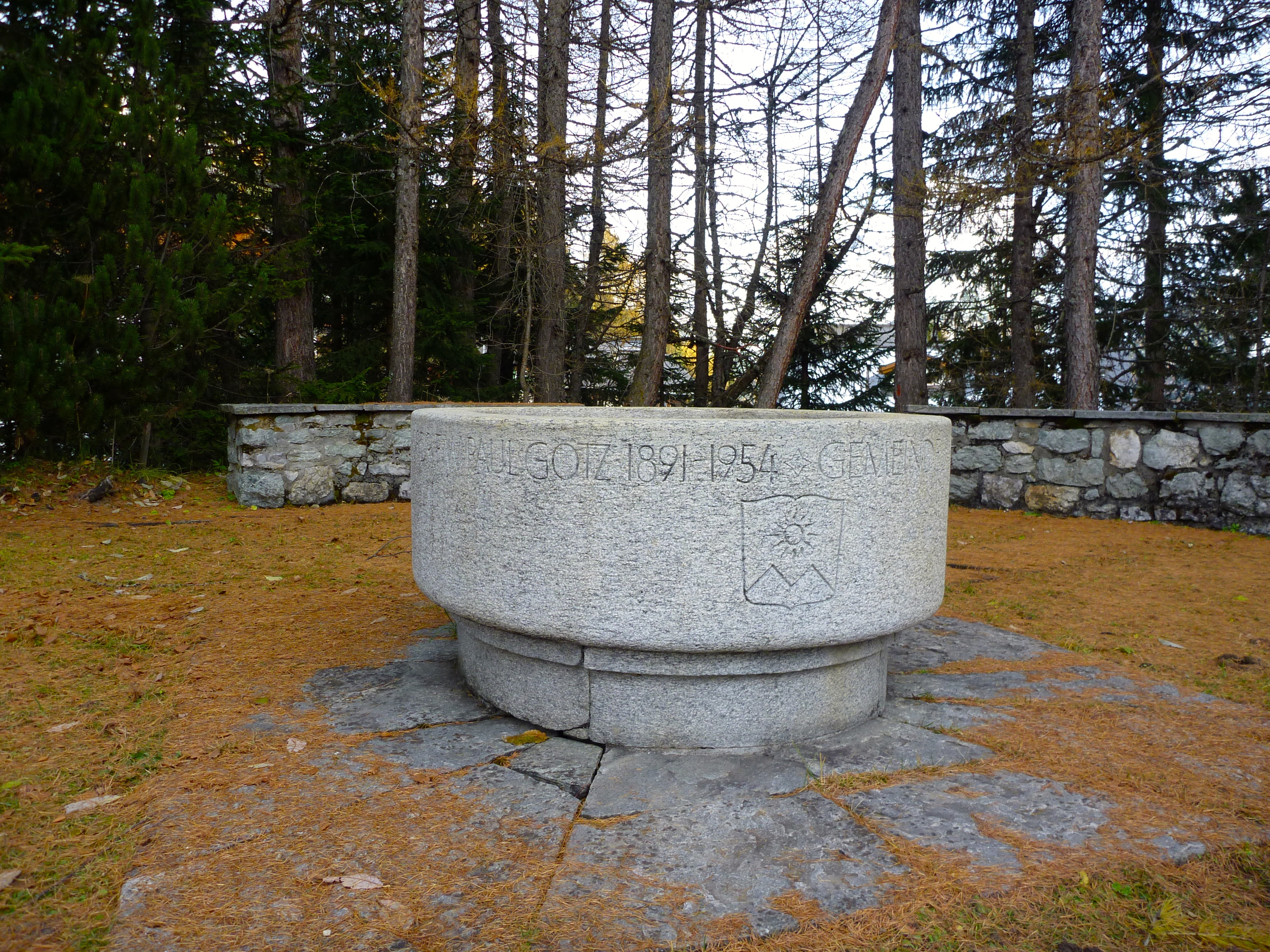 Water well "Goetzbrunnen" in Arosa/Switzerland